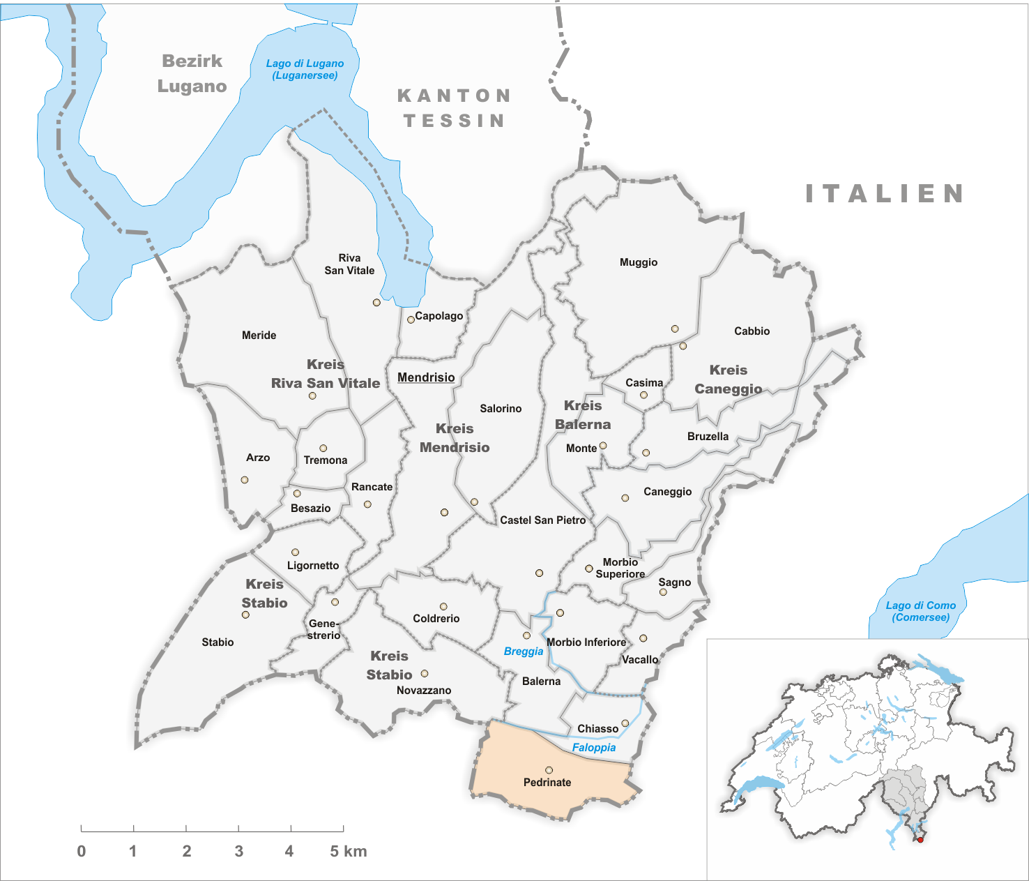 Municipality Pedrinate